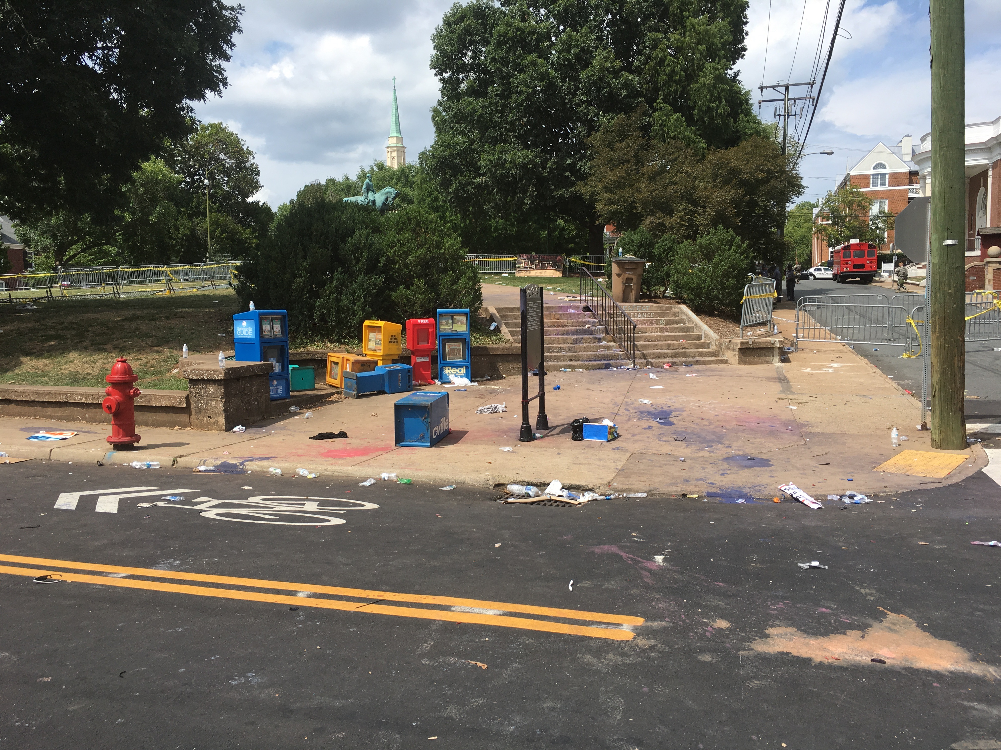 The edge of Emancipation Park after it was cleared Charlottesville, VA August 12, 2017